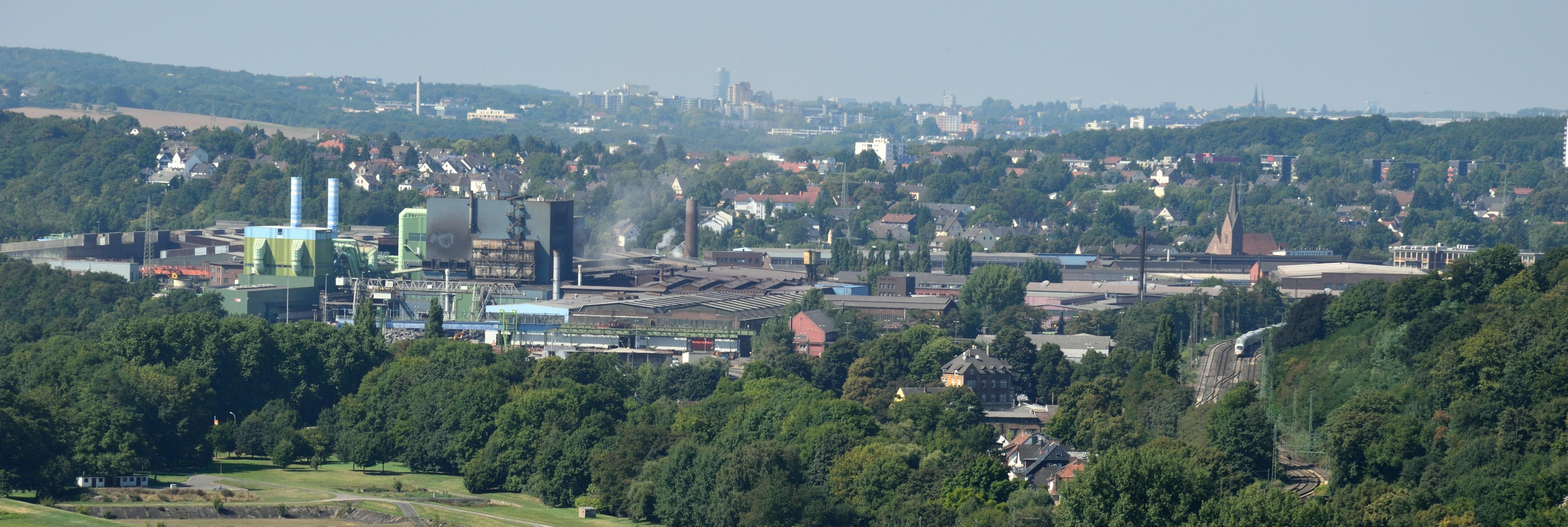 Deutsche Edelstahlwerke in Witten